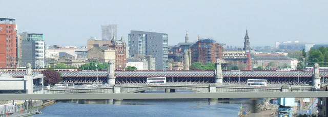 Glasgow Viewed from the Kingston Bridge southbound lane. The prominent lattice girder bridge is at Central Station. Celtic Park in the east end is visible on the right horizon.